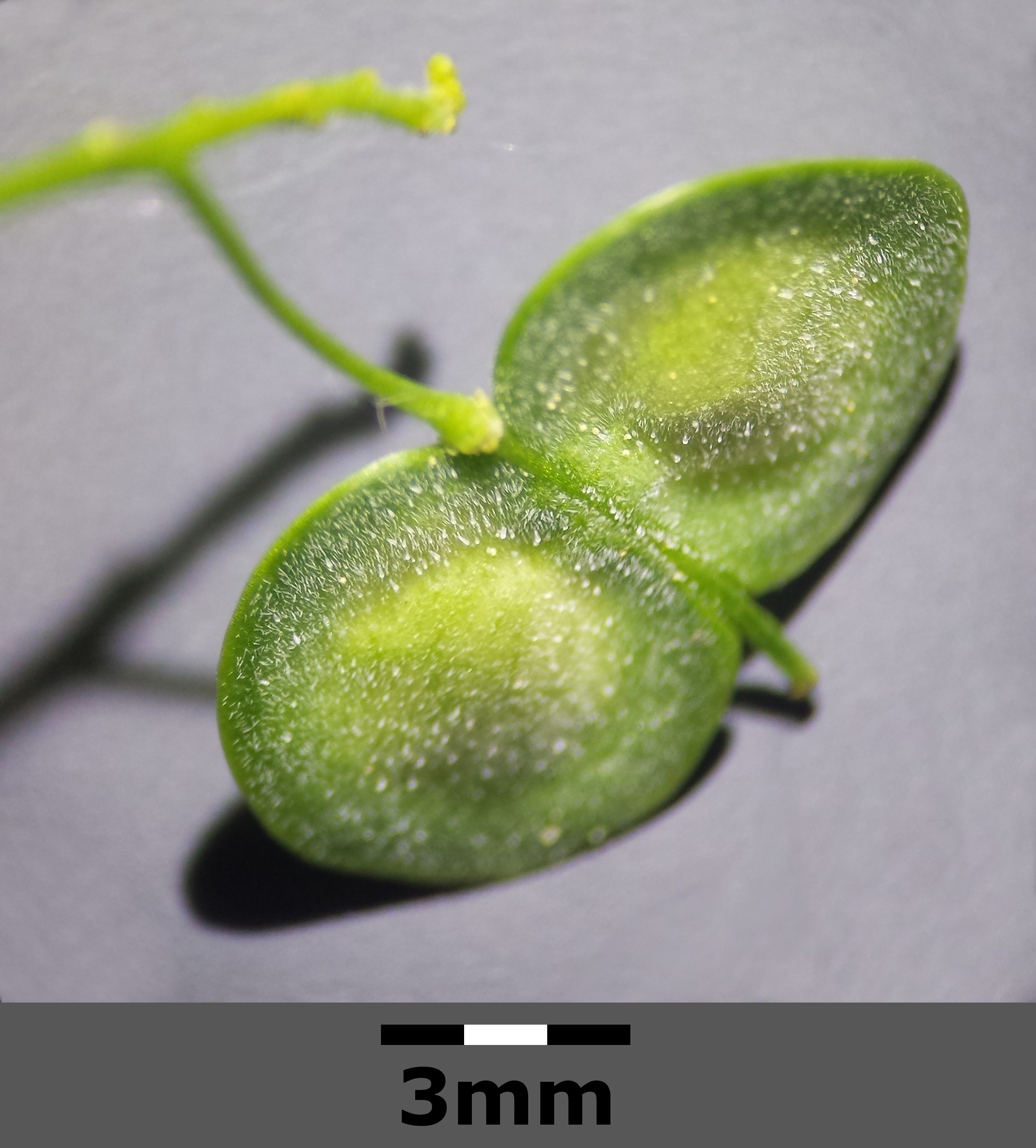 Silique Taxonym: Biscutella laevigata subsp. kerneri ss Fischer et al. EfÖLS 2008 ISBN 978-3-85474-187-9 Location: Biratalwand Dürnstein, district Krems-Land, Lower Austria - ca. 350 m a.s.l. Habitat: rocky slope